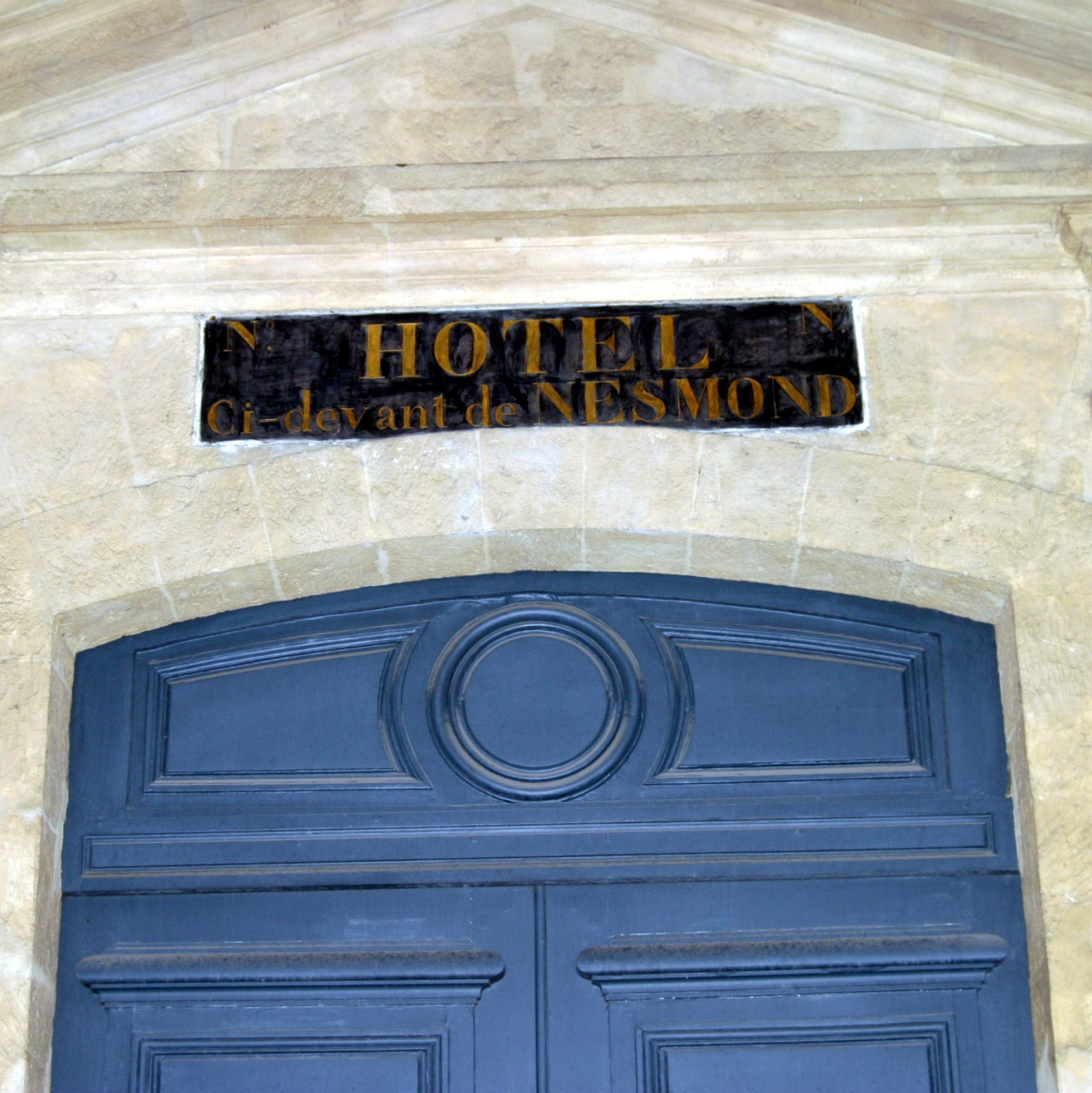 Hôtel ci-devant de Nesmond, Quai de la Tournelle, Paris